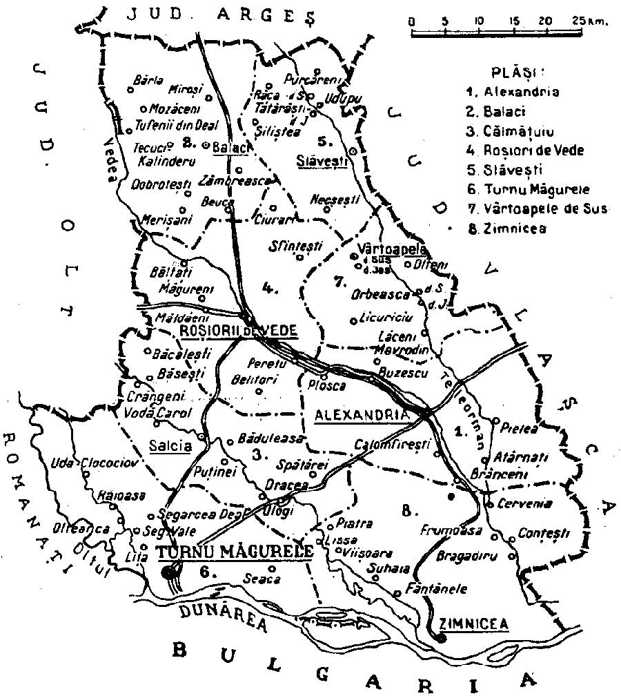 Map of Teleorman interwar county, Kingdom of Romania (1938).